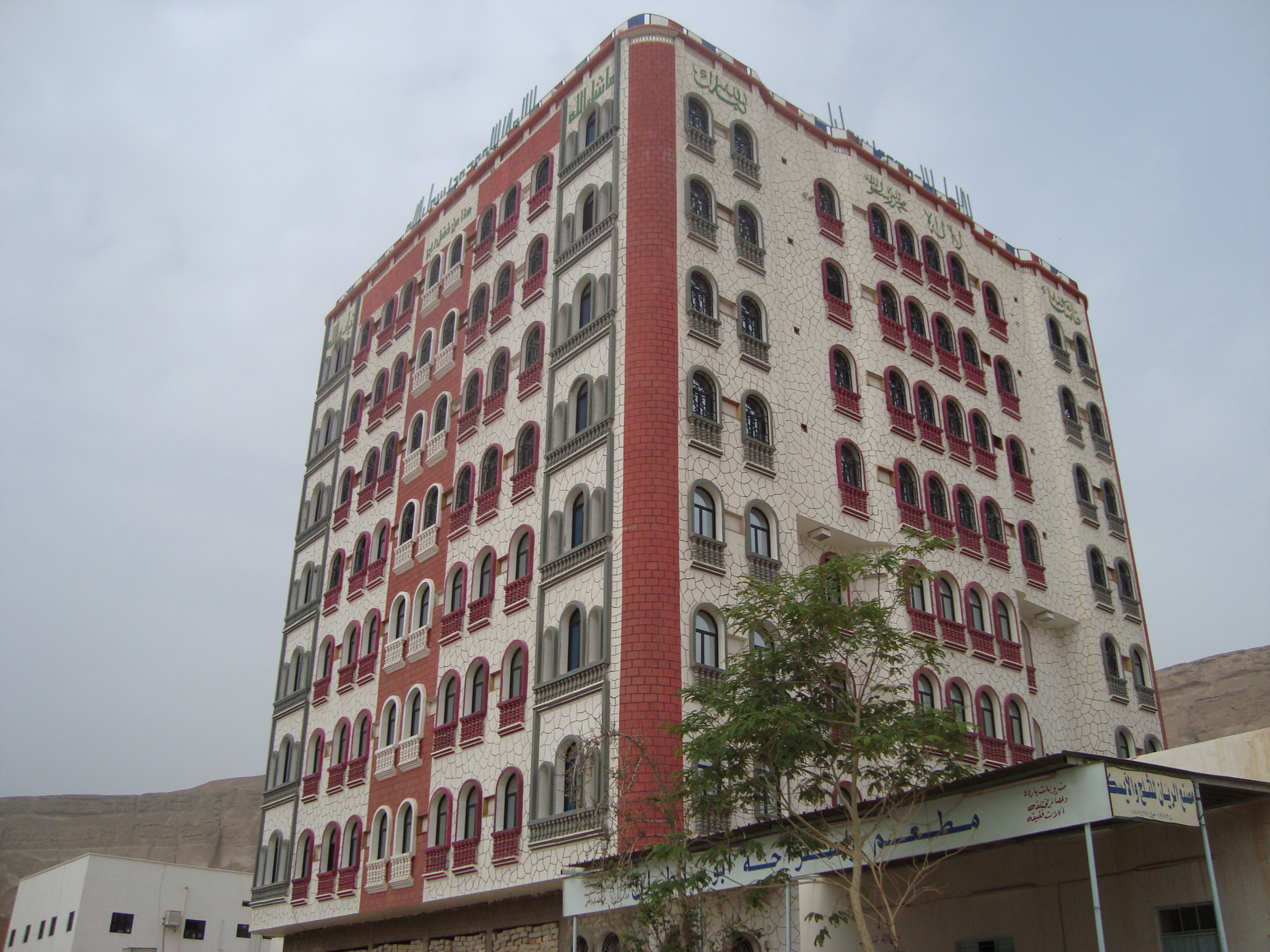 Seiyun